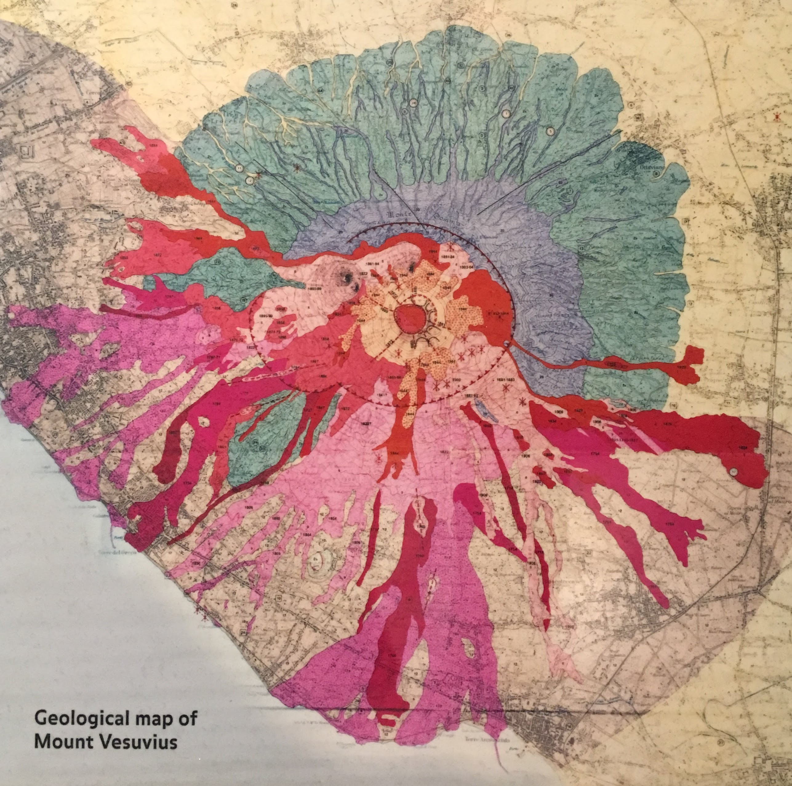 A geological map of Mount Vesuvius displayed at the David S. and Ruth L. Gottesman Hall of Planet Earth in the American Museum of Natural History.